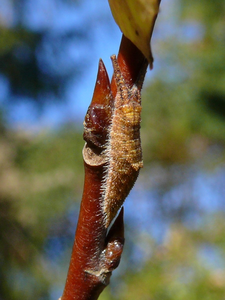 Young caterpillar of Lesser Purple Emperor in October Aufgenommen bei einer Exkursion des Arbeitskreises Schmetterlinge der Kreisgruppe München beim Landesbund für Vogelschutz (LBV).